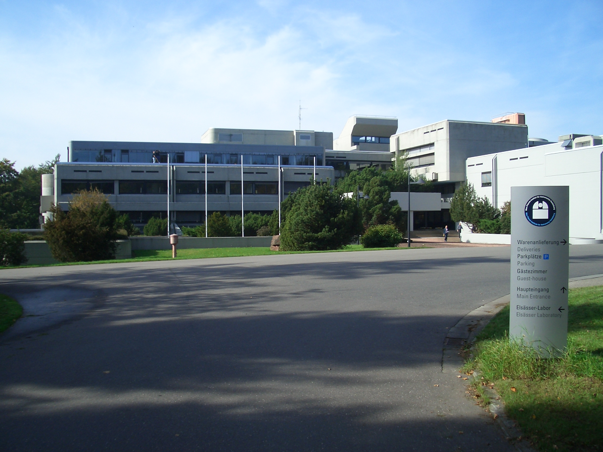 This photo is taken by myself with a Casio Ex-Z30 Camera